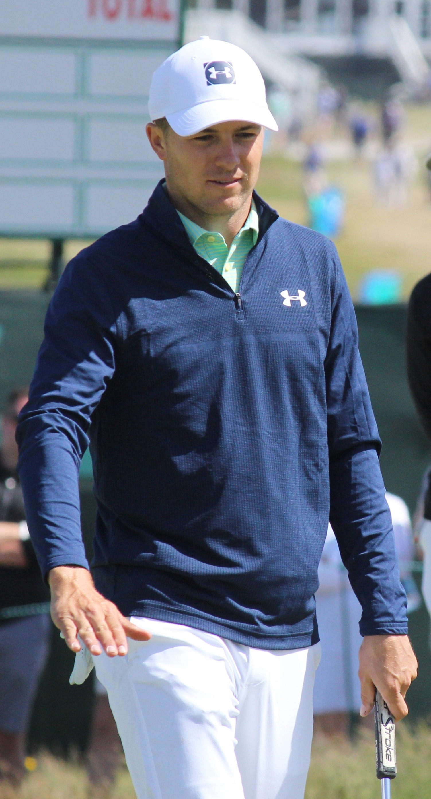 Jordan Spieth 2018 US Open